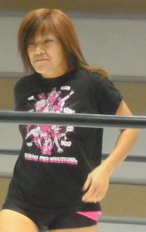 Japanese professional wrestler, Kyoko Kimura. Mar 4 2012, REINA Yokohama Radiant Hall.